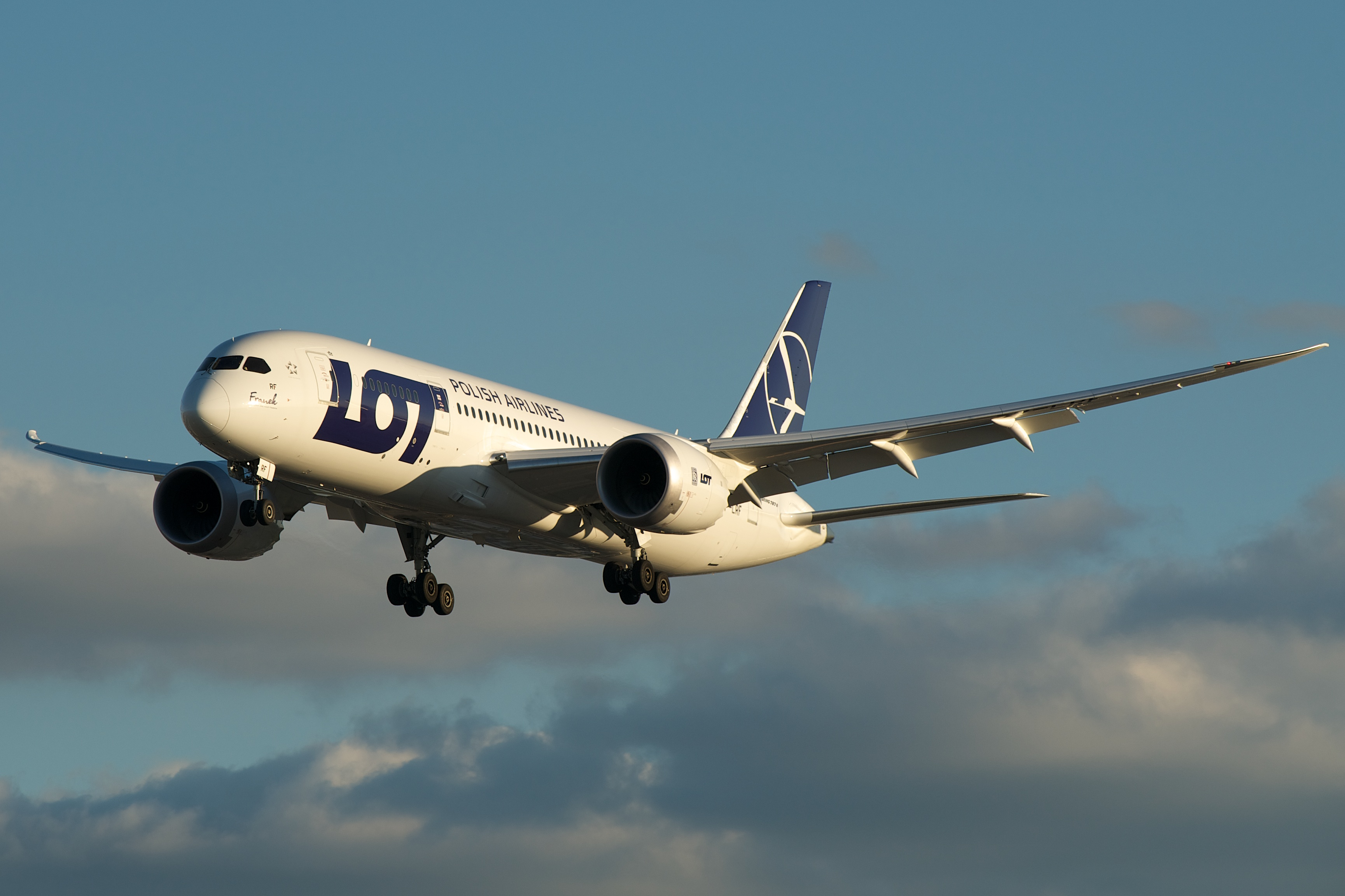 'Franek' on close final, Toronto-Pearson YYZ